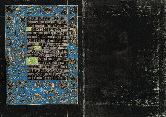 Fols. 121v–122r. Black Hours (Morgan Library)